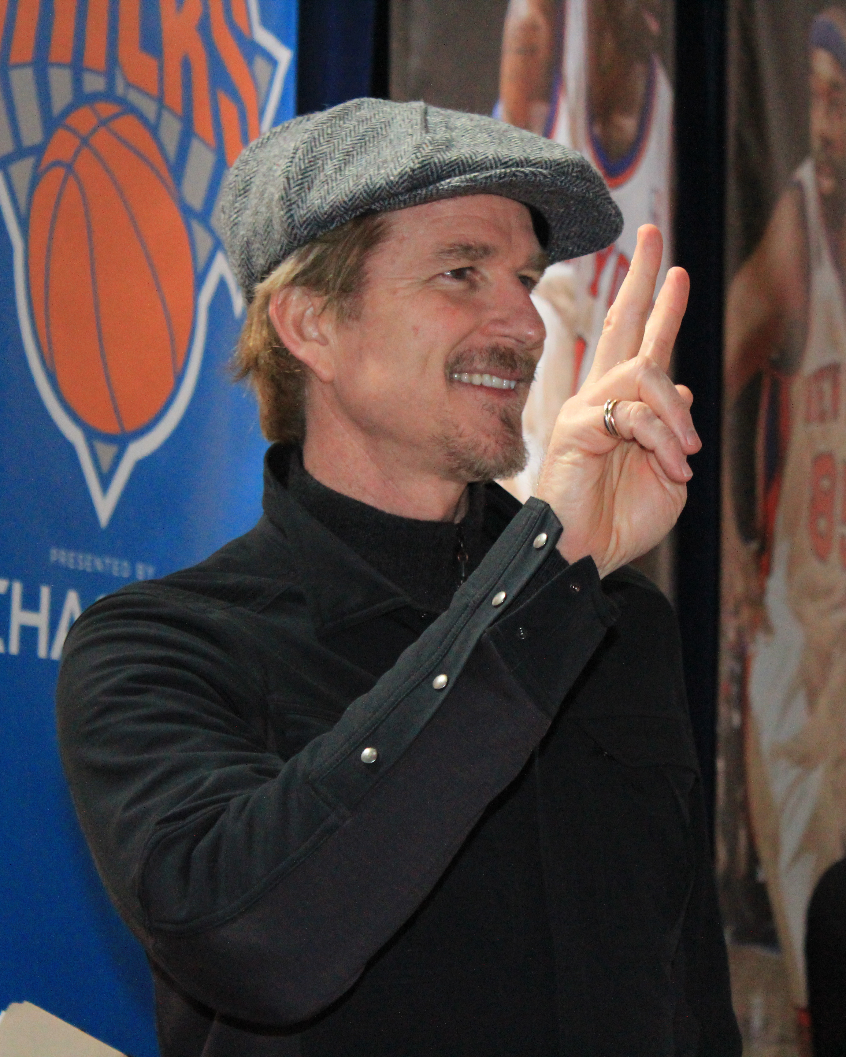 Matthew Modine at the NY Knicks vs Miami Heat game (May 2012)